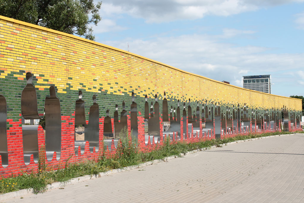 A view of the Baltic Way Monument, a monument that represents the human chain that people from Estonia, Latvia and Lithuania made to protest against the Soviet occupation.